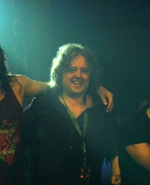 Troy Donockley with Nightwish, live in Zagreb, Croatia (2009)